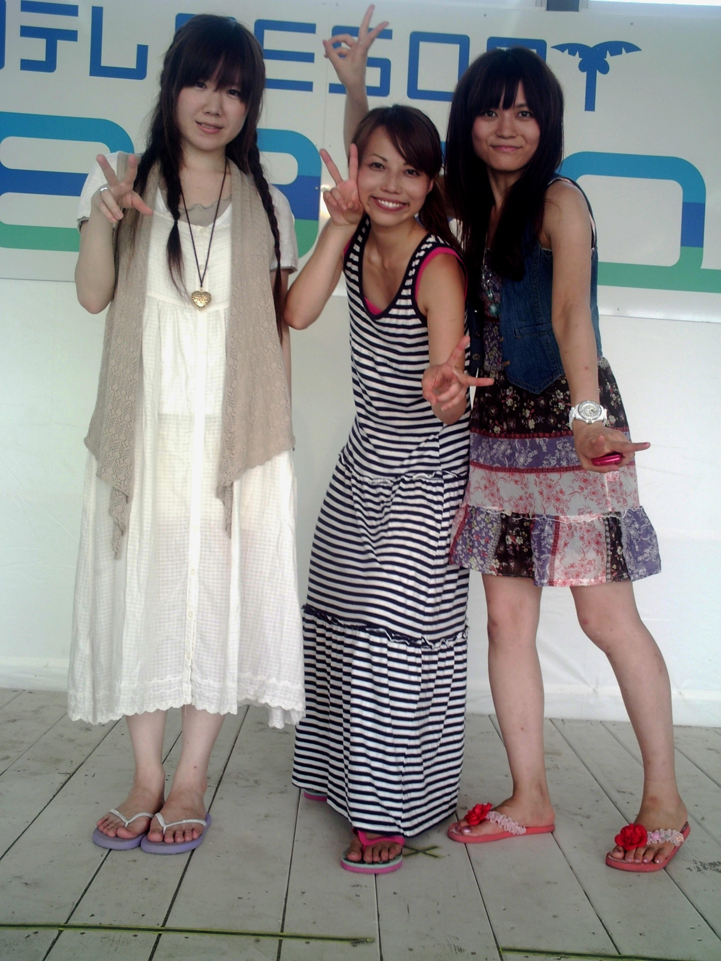 トリコロール (お笑いトリオ) 2010年7月30日撮影